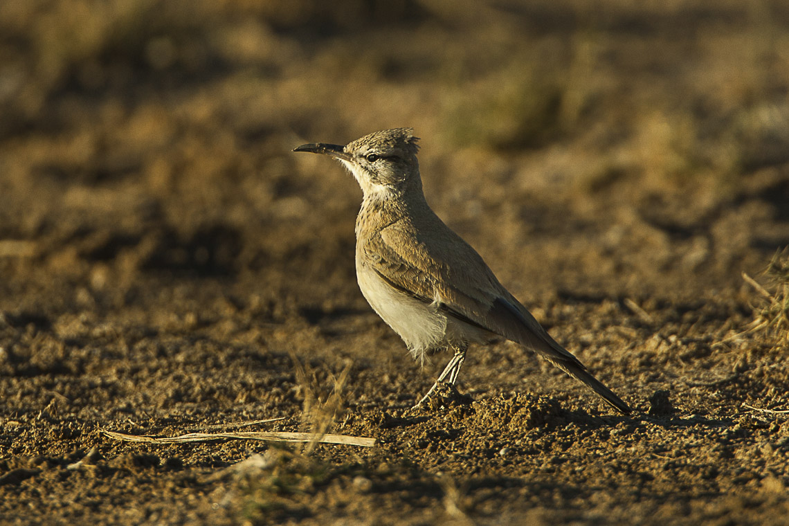 Greater Hoopoe-Lark - Merzouga Marocco 07_3284